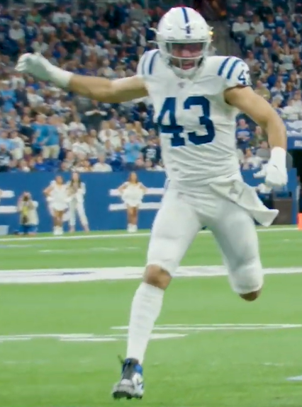 Ross Travis 2019. Image from video Game-Changing INTs vs. Colts | Beneath the Surface, ~ 01:23.